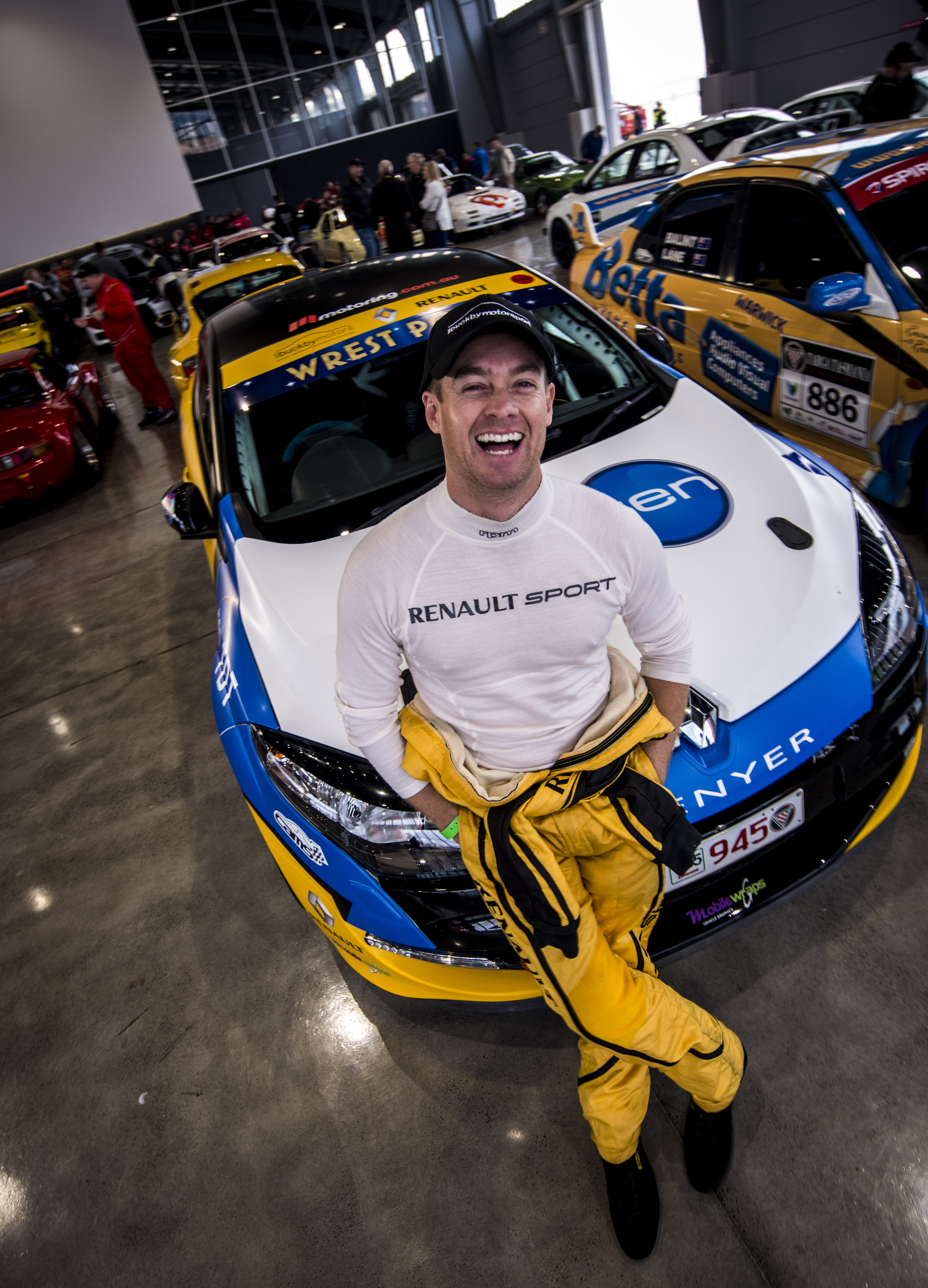 Grant Denyer with his 2012 Renault Mégane RS265 in the 2015 Targa Tasmania. He finished 2nd in the Showroom competition.